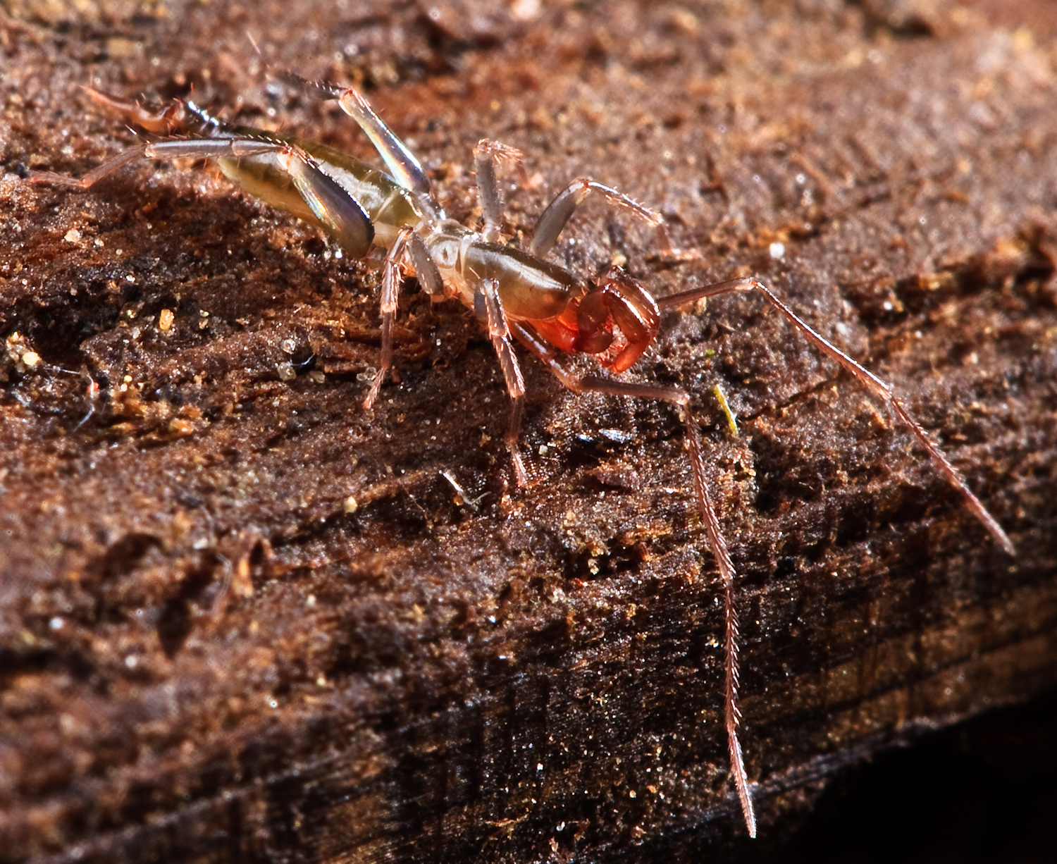 Male schizomid Hubbardia pentapeltis. Photo taken in College Heights, San Diego, California, USA.